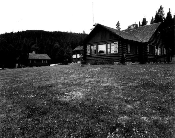 Centennial Work Center, Front of Residence and Office Located approx. 1 mi. North West of Centennial, Wy Highway 130, Medicine Bow National Forest Albany County